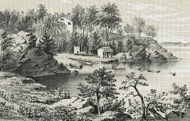 Turtle Bay, East River 1853 from the New York Public Library Digital Gallery Image Title: Turtle Bay, East River, N.Y. 1853 / Geo. Hayward Creator: Emmet, Thomas Addis, 1828-1919 -- Collector Specific Material Type: Prints Standard Reference: EM10435 Source: Emmet Collection of Manuscripts Etc. Relating to American History. / Booth's History of New York. / Volume 1. Source Description: 139 prints : etching, engraving, stipple, aquatint, mezzotint, wood engraving, lithograph, some col. ; 36 x 71.7 cm. or smaller. Location: Stephen A. Schwarzman Building / Print Collection, Miriam and Ira D. Wallach Division of Art, Prints and Photographs Catalog Call Number: MEZP Digital ID: 424333 Record ID: 166283 Digital Item Published: 9-3-2004; updated 3-25-2011